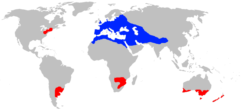 Distribution of German Wasp (Vespula germanica)